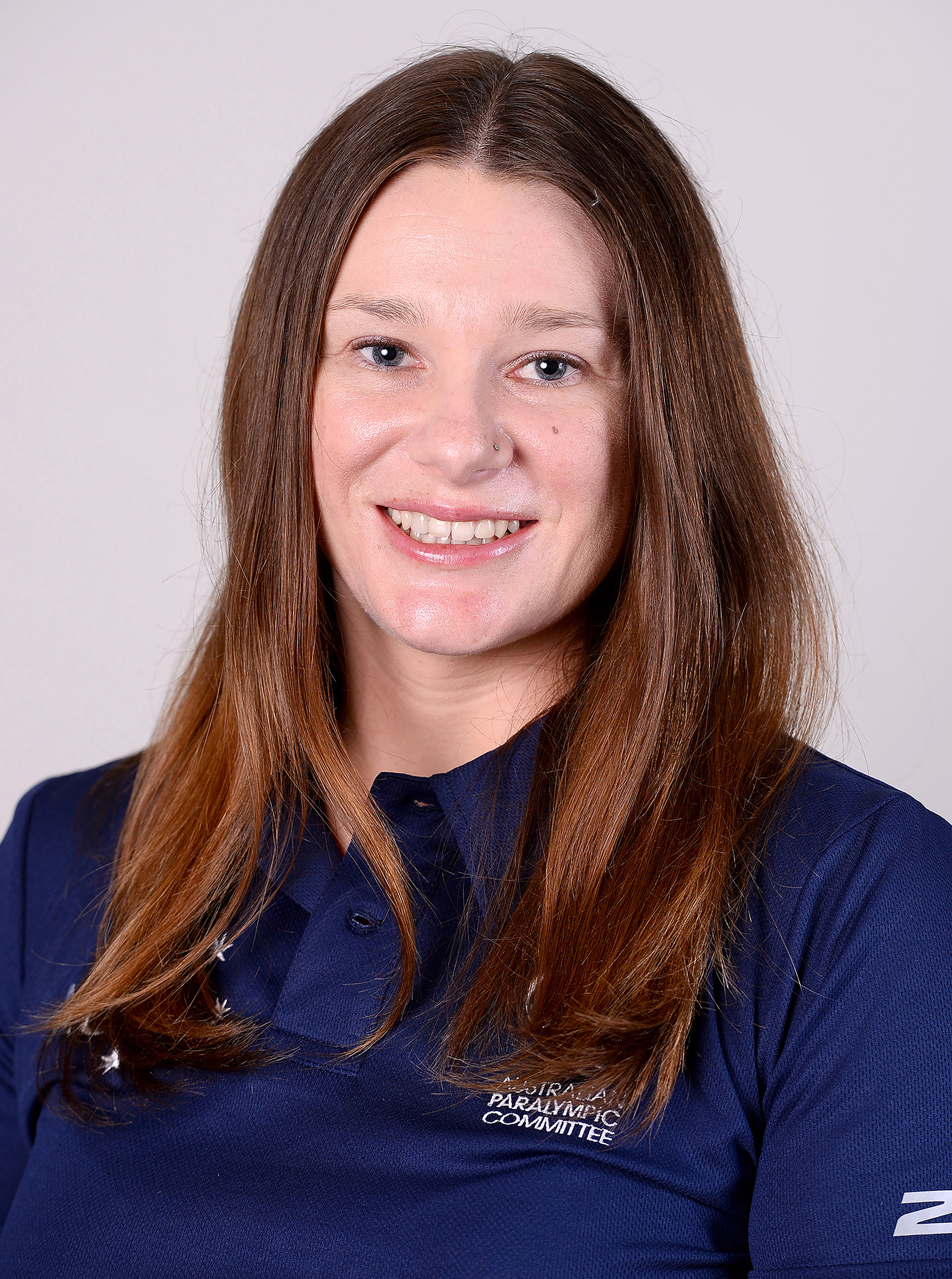 Portrait photograph of Susanne Siepel taken at team processing session for shadow members of 2016 Australian Paralympic team